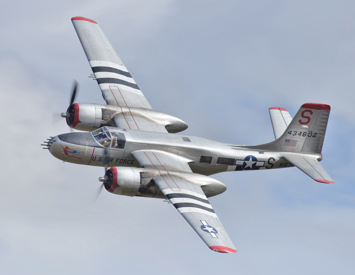 Douglas A26 Invader